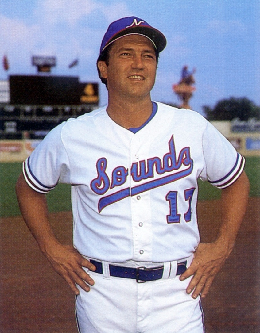 Pitching coach Wayne Garland of the 1987 Nashville Sounds Minor League Baseball team of the American Association